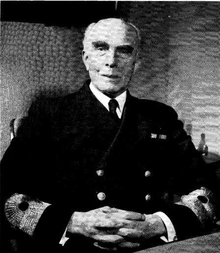 Vice Admiral Helge Strömbäck at his resignation as Chief of Navy in 1953.